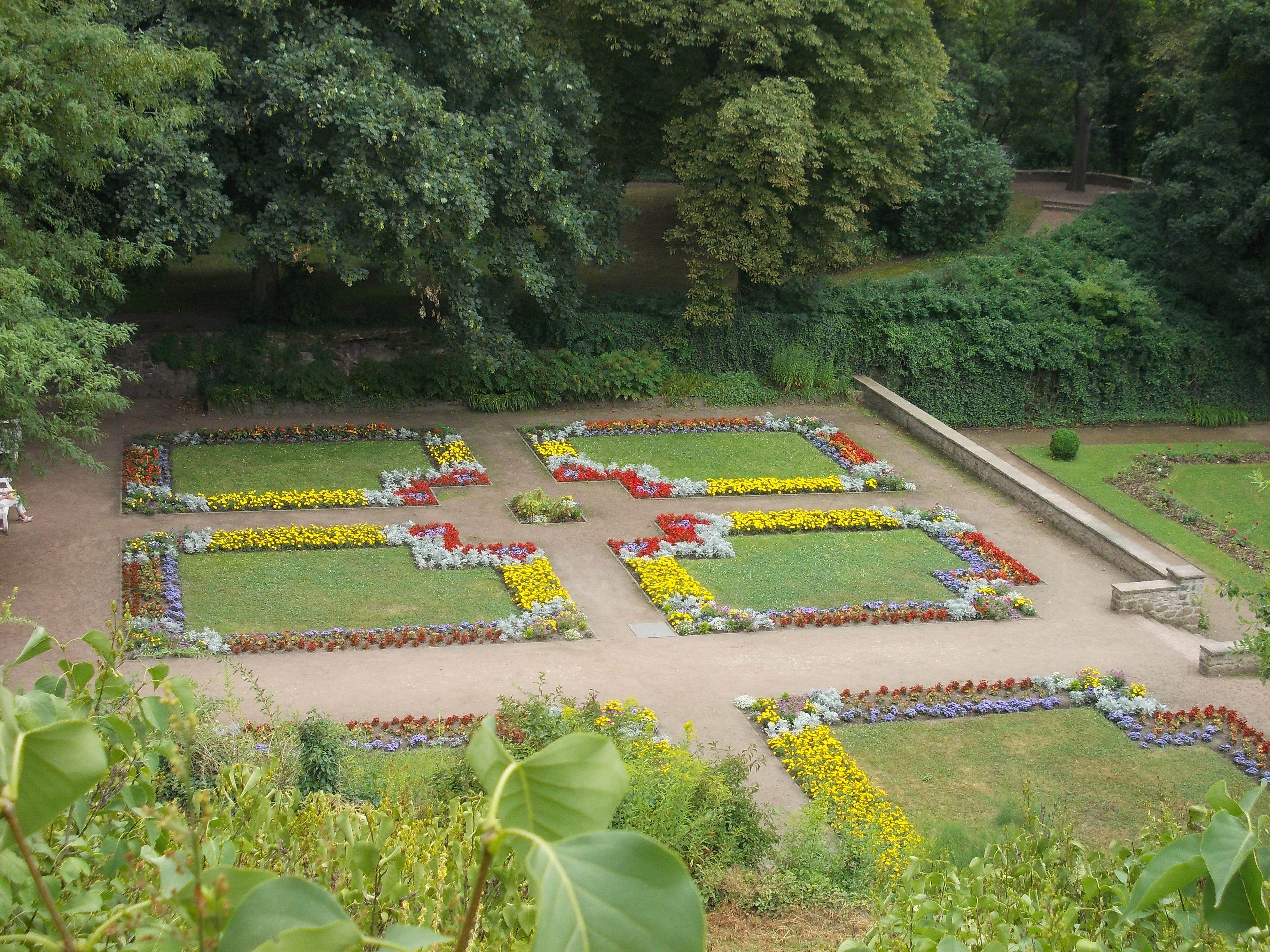 Amtsgarten, a park in the Giebichenstein quarter of Halle/Saale (Saxony-Anhalt)